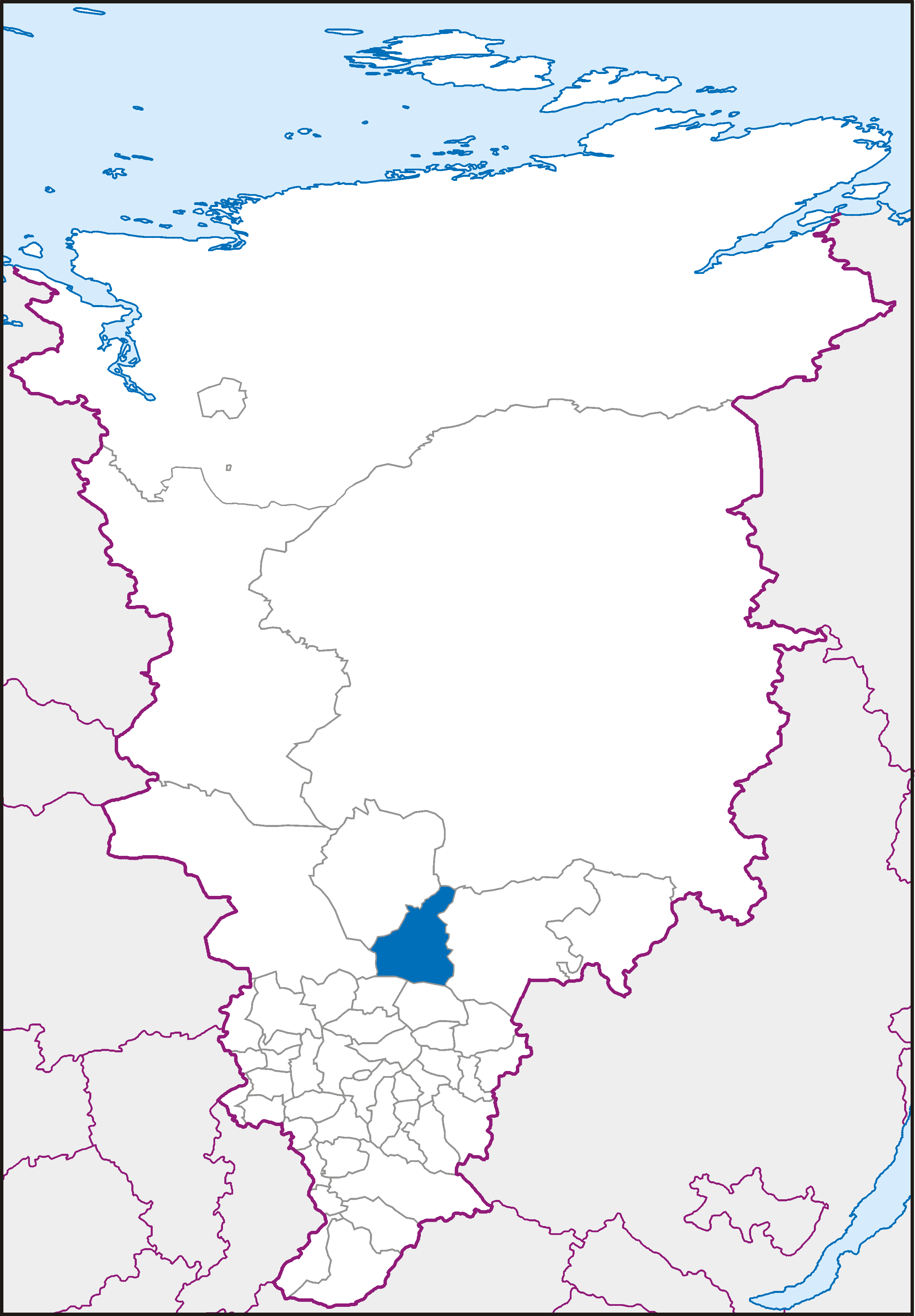 Map of Krasnoyarsk Krai in Albers Equal-Area Conic projection (Central Meridian = 95° E)